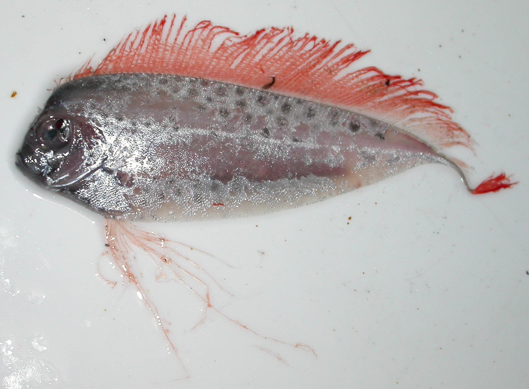 Desmodema polystictum collected from a trawl to 1500 meters from Atlantic Ocean, Bear Seamount.